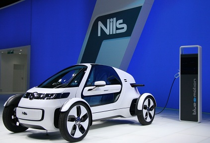 Volkswagen Nils at IAA 2011 with charging station.